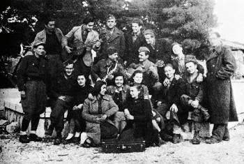 Theater troop of Greek guerillas, 1943